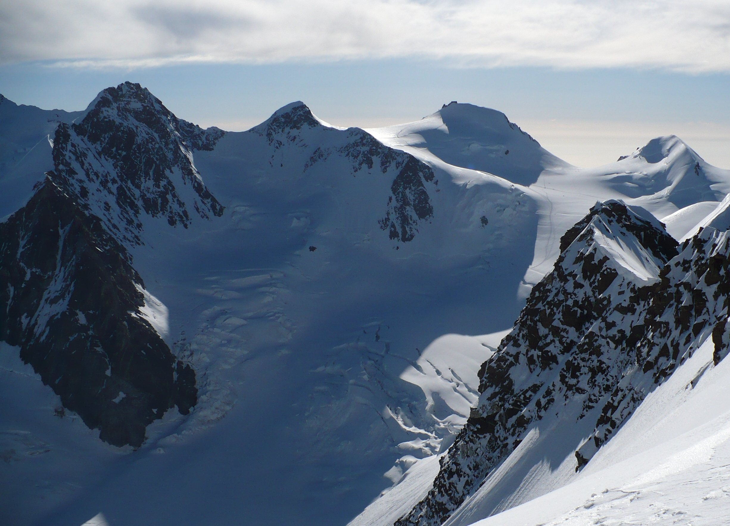 Monte Rosa from Lyskamm. Dufourspitze (left), Zumsteinspitze, Signalkuppe and Parrotspitze (right)